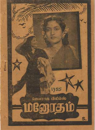 Song book cover of Tamil film Manoratham